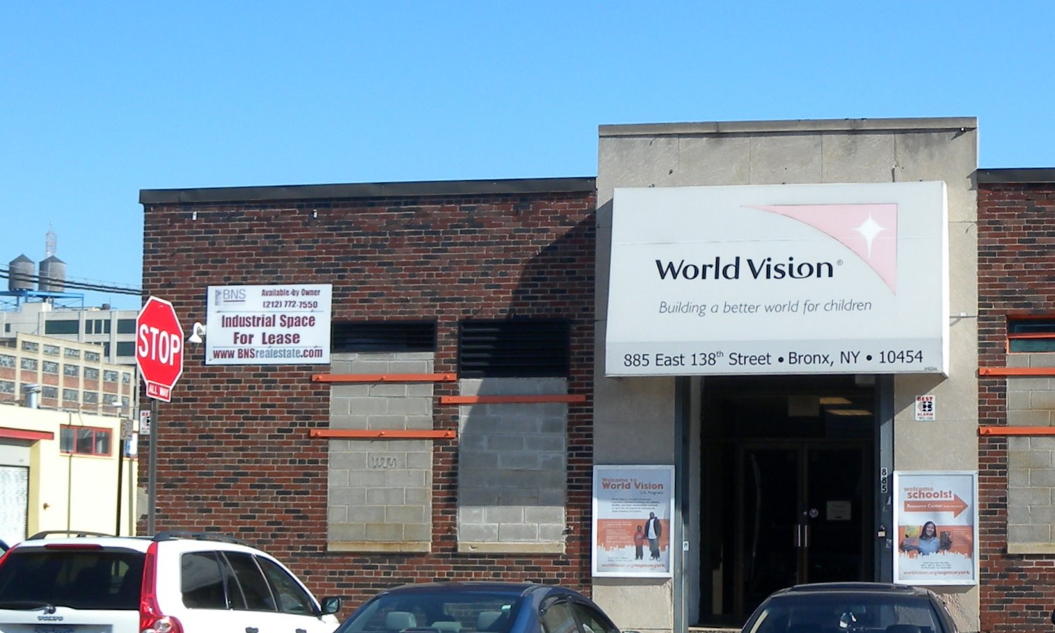 Looking north across 138th Street at World Vision on a sunny morning.